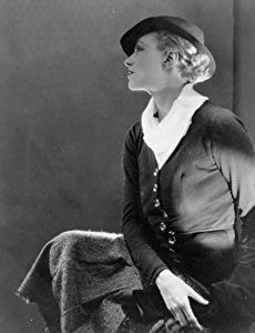 About this Item Title [Noel Haskins Murphy, three-quarter length portrait, seated, facing left] Contributor Names Hoyningen-Huehne, George, 1900-1968, photographer Created / Published [193-?] Subject Headings - Murphy, Noel Haskins Format Headings Photographic prints--1930-1940. Portrait photographs--1930-1940. Notes - Photo by Baron Hoyningen-Huehne. - Janet Flanner-Solita Solano papers. - Reference copy also available in BIOGRAPHICAL FILE. - Published in: Genêt / Brenda Wineapple. New York : Ticknor & Fields, 1989. Medium 1 photographic print. Call Number/Physical Location LOT 13259, v. 25 no. 187h [P&P] Digital Id cph 3c02455 //hdl.loc.gov/loc.pnp/cph.3c02455 Library of Congress Control Number 91713222 Reproduction Number LC-USZ62-102455 (b&w film copy neg.) Online Format image Description 1 photographic print. LCCN Permalink Additional Metadata Formats MARCXML Record MODS Record Dublin Core Record